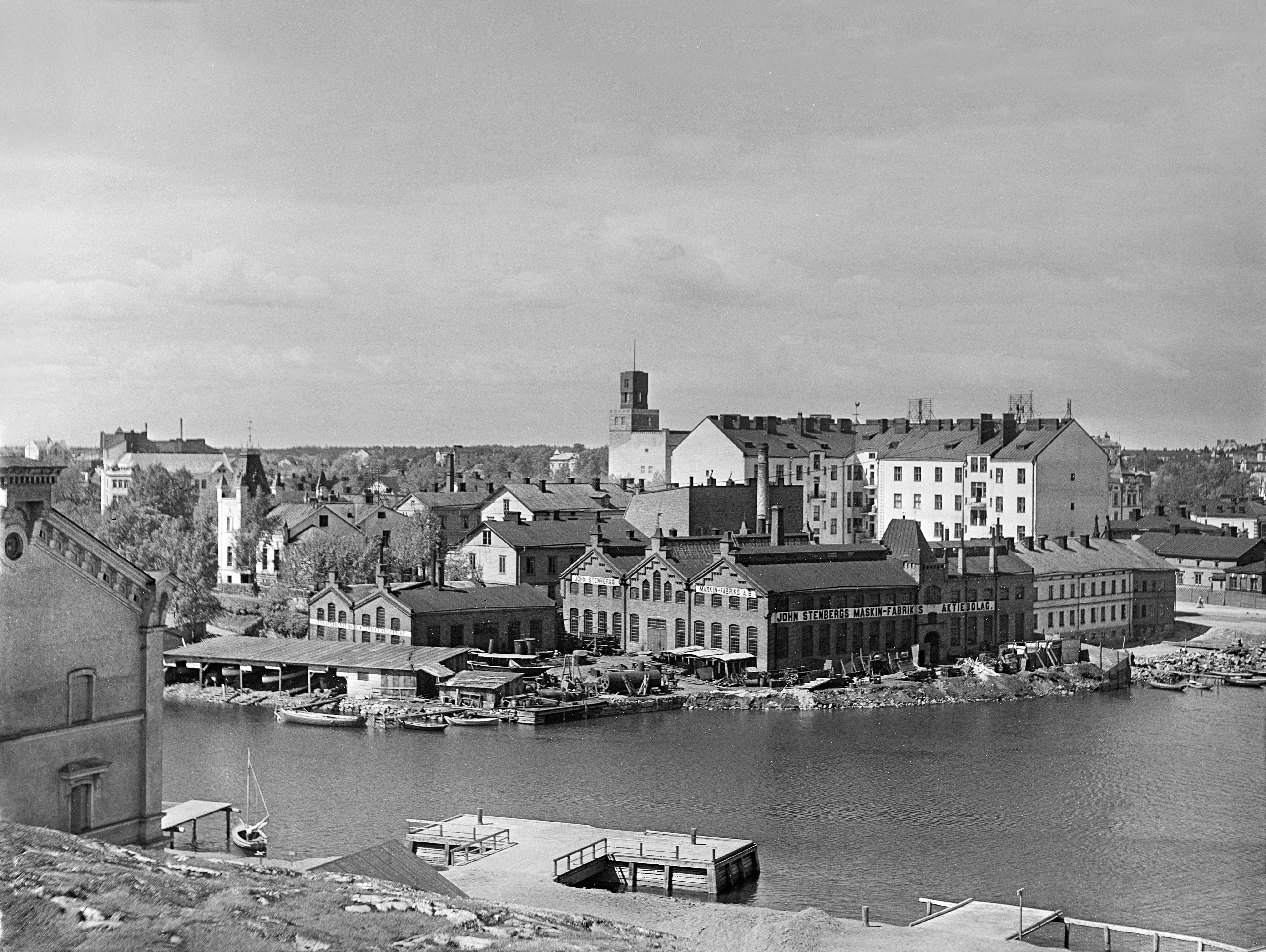 View from Siltavuori towards Siltasaari in Helsinki, Finland.